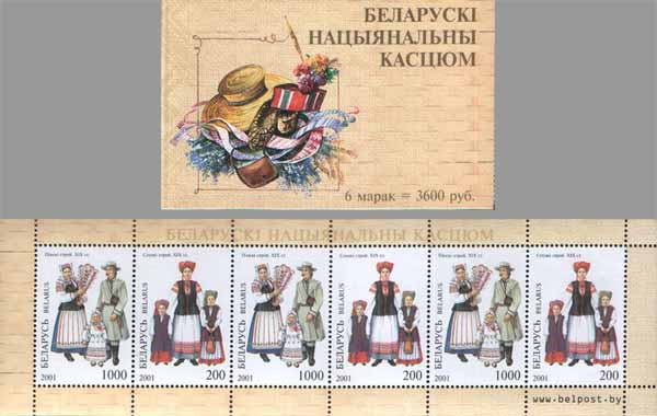 Stamps of Belarus with painting of Mikhail Ramaniuk